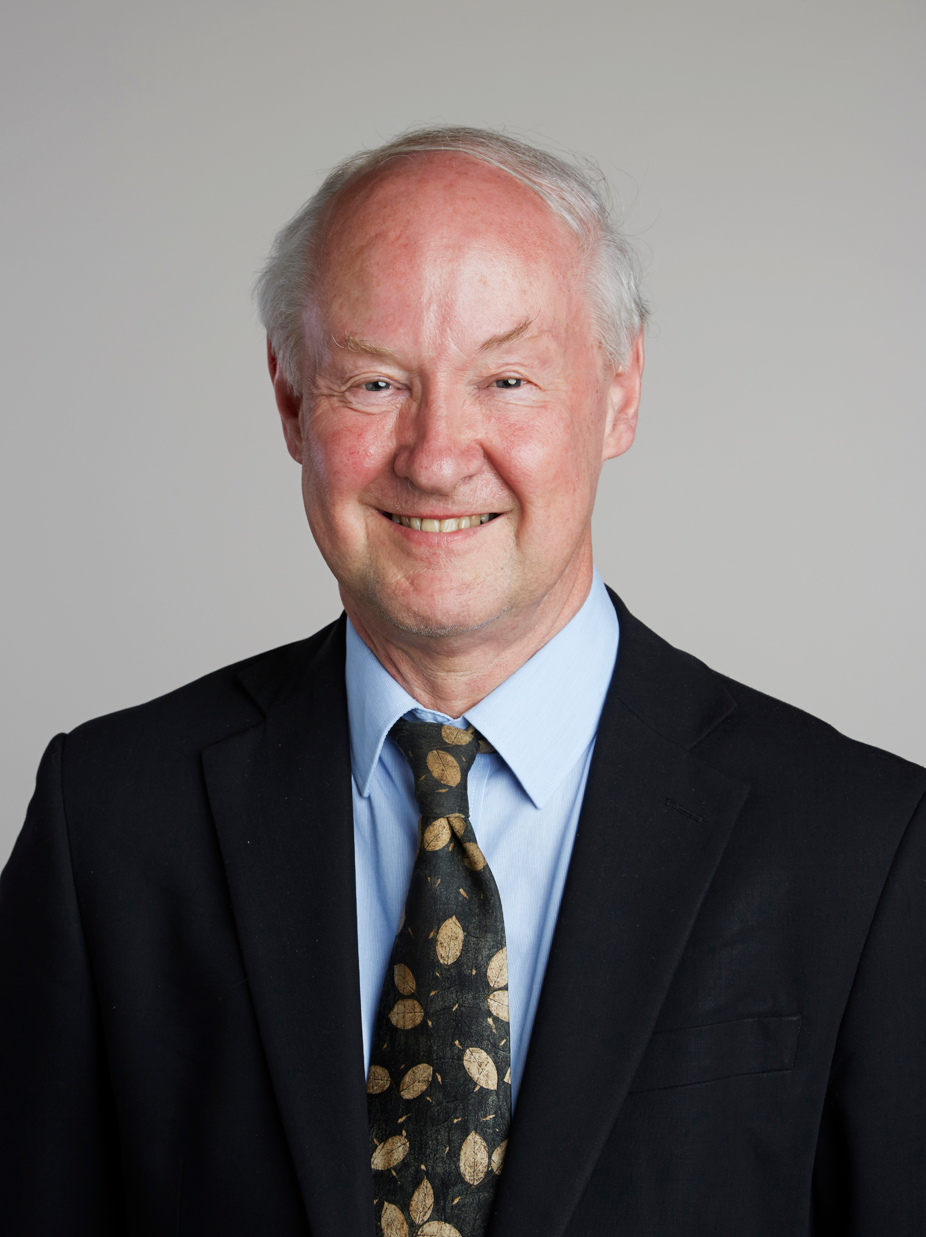 John Robertson is a Professor of Electronics, in the Department of Engineering at the University of Cambridge. He is a leading specialist in the theory of amorphous carbon and related materials. Attribution: The Royal Society